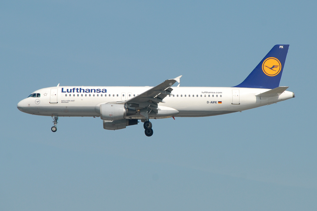 D-AIPX Lufthansa Airbus A320-211 c/n 0147